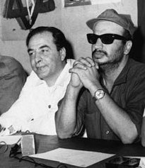 From left to right: Kamal Nasser and Yasser Arafat in Jordan press conference in Amman, 1970